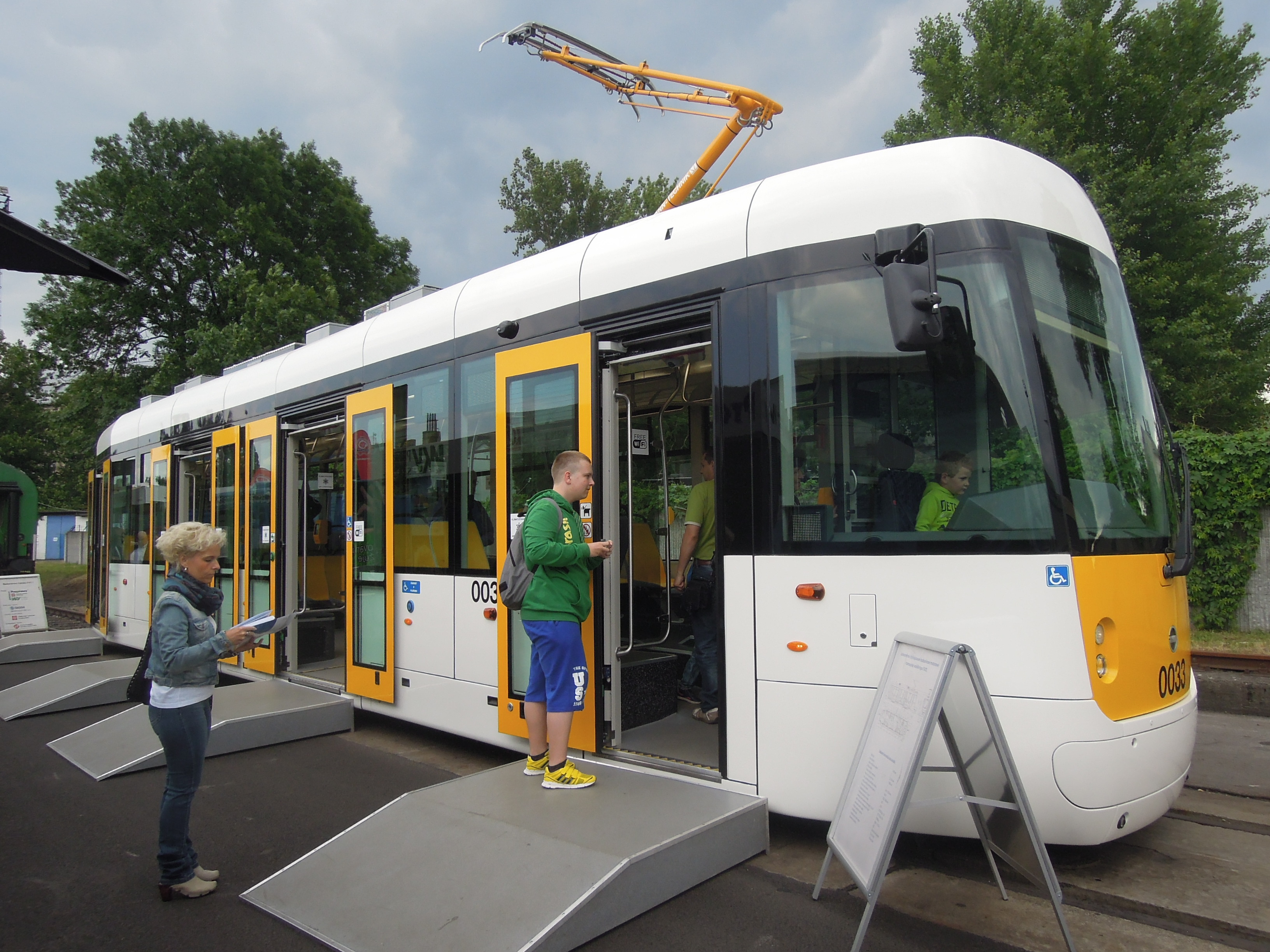 EVO1 tram at the Czech Raildays 2015 trade fair in Ostrava, Czech Republic